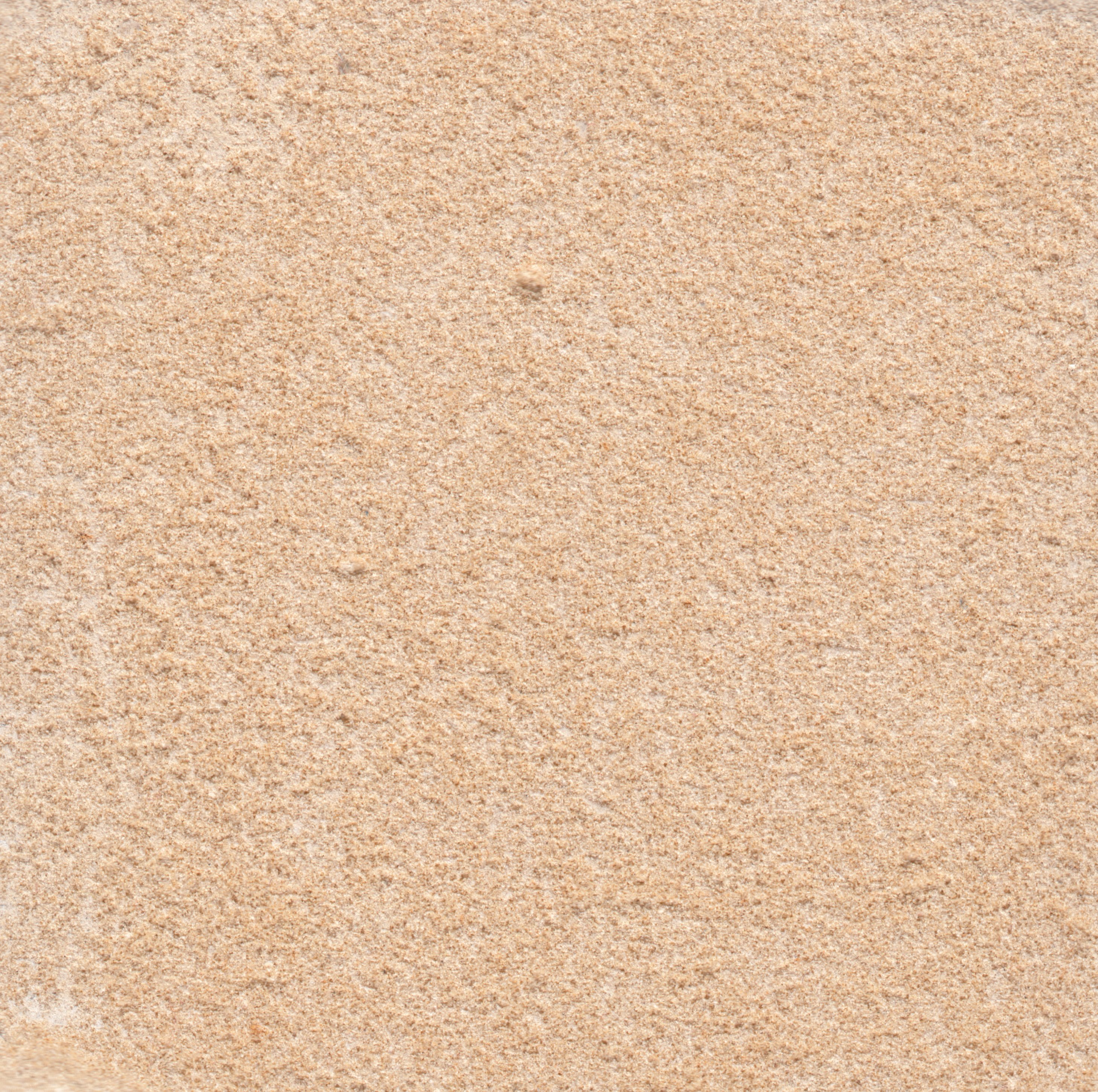 Close-up of Cretaceous limestone "mergel" from Valkenburg, The Netherlands. Sample dimensions: 6 cm x 6 cm.